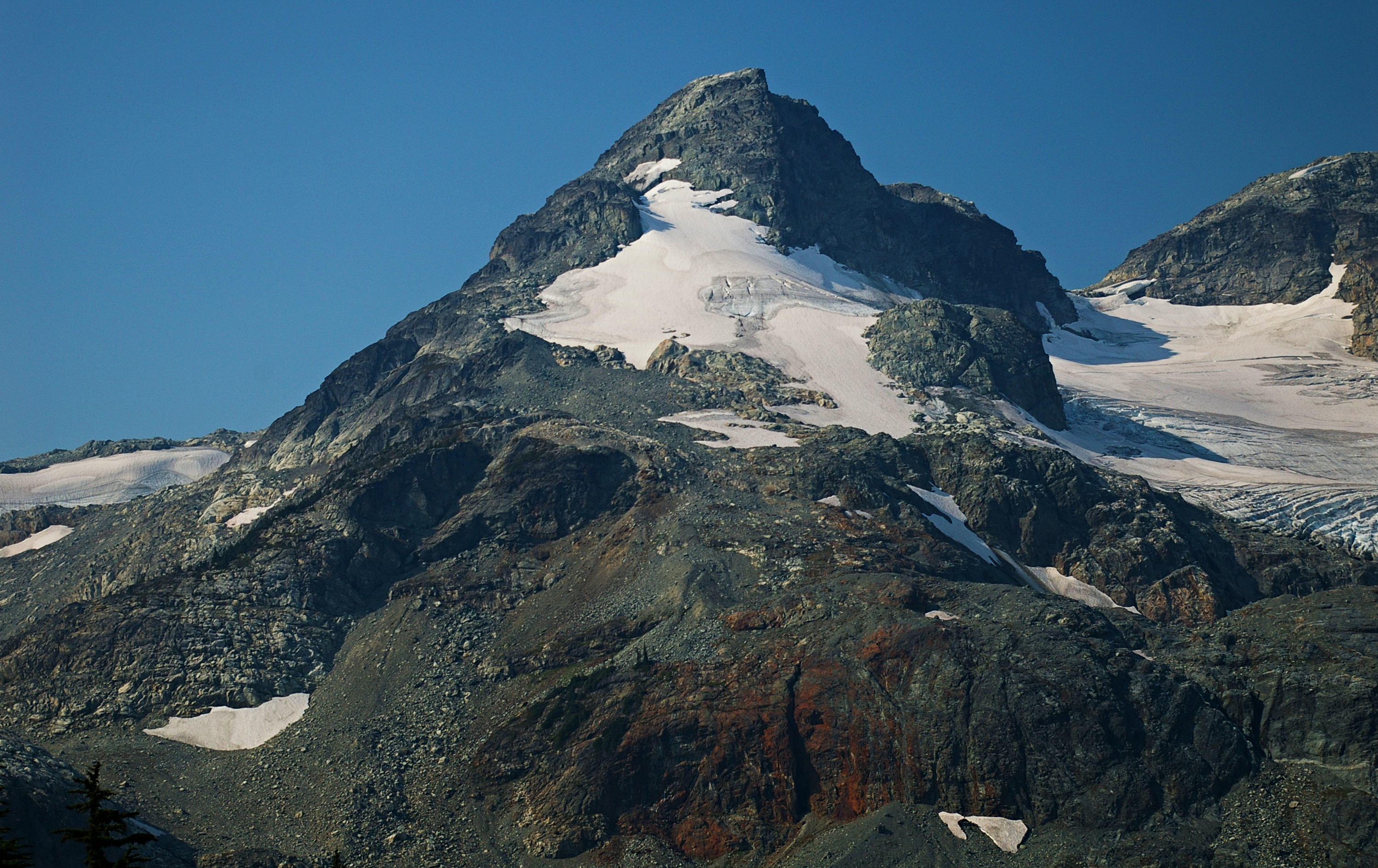 Locomotive Mountain featuring Train Glacier